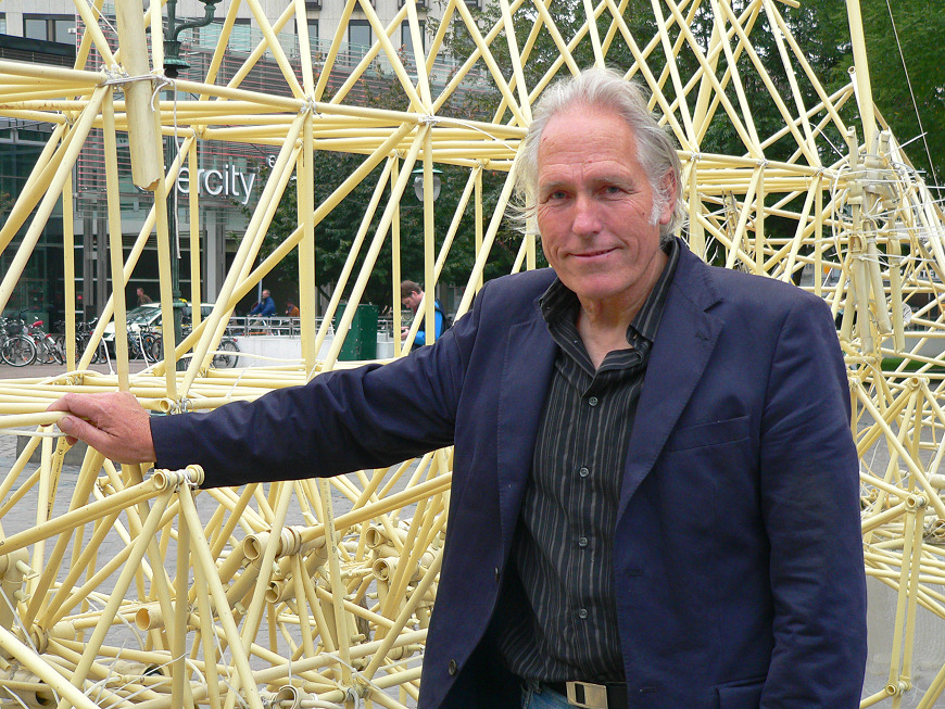 Jansen Theo with his Strandbeest exhibition. Photo taken in Hannover.